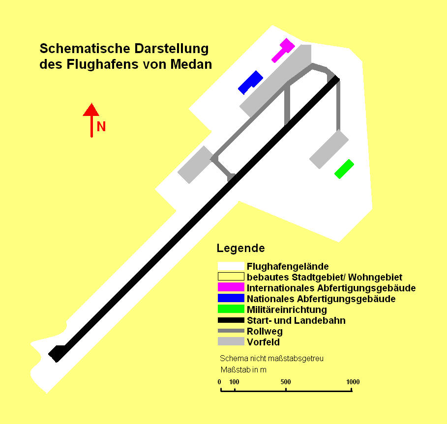 map of medan airport